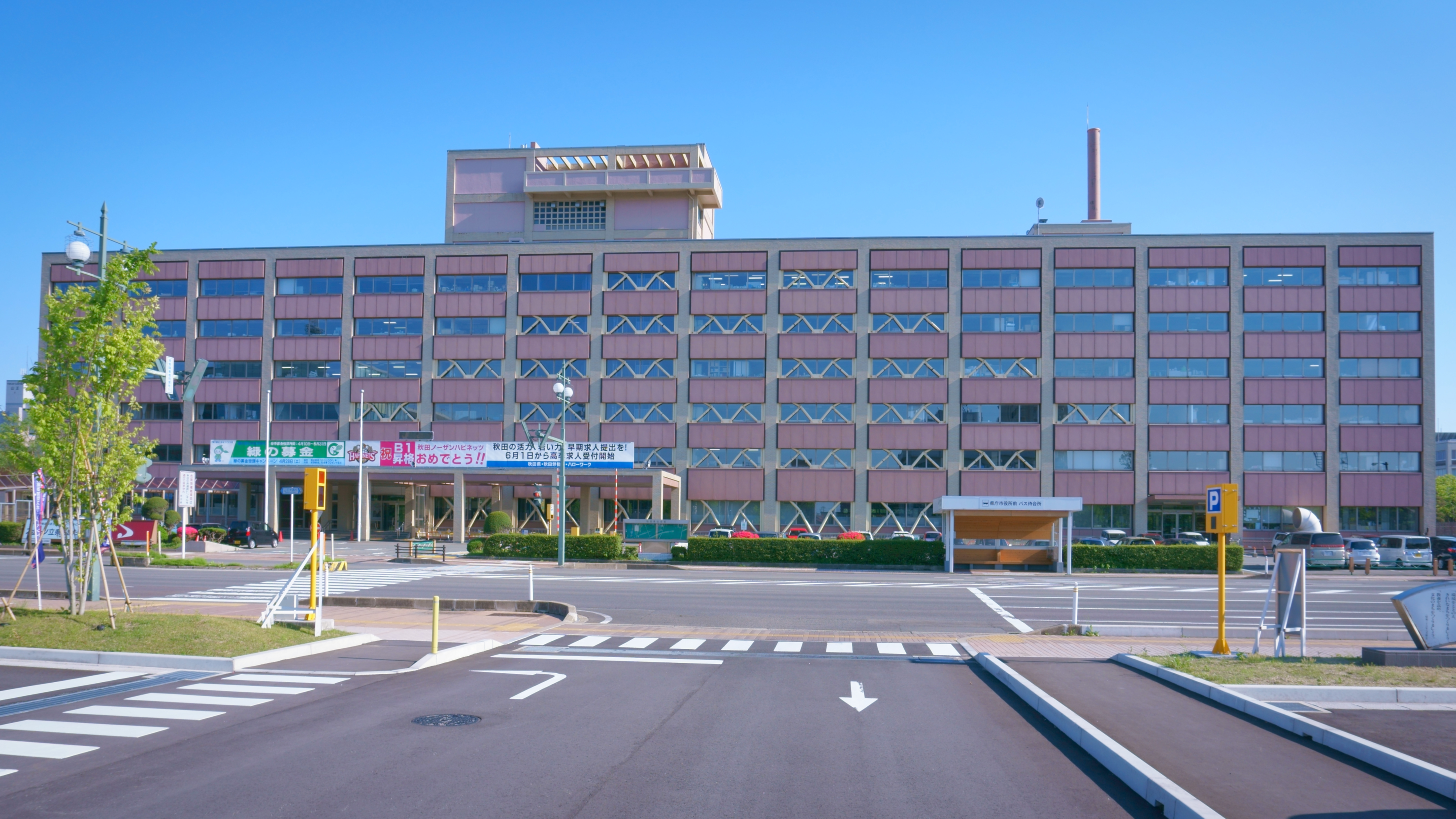 Akita Prefectural Government Office BLDG., in Japan